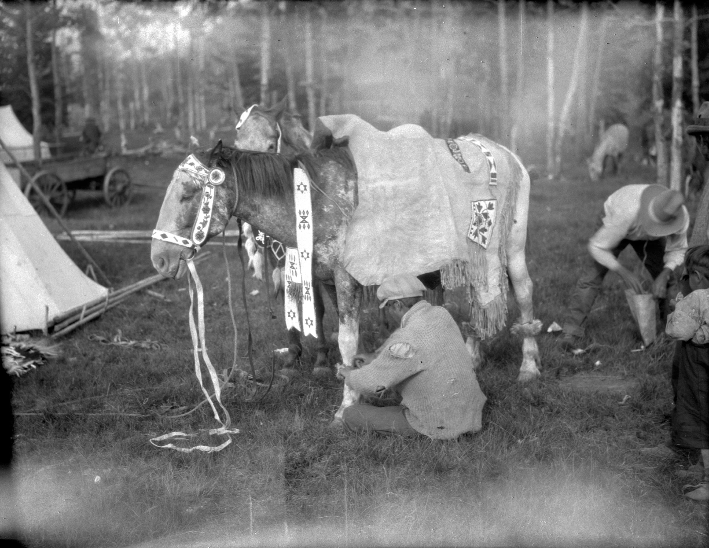 From the Paul Coze fonds, PR2006.0508/12.